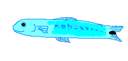 Draft of tailspot dart goby (Ptereleotris heteroptera)